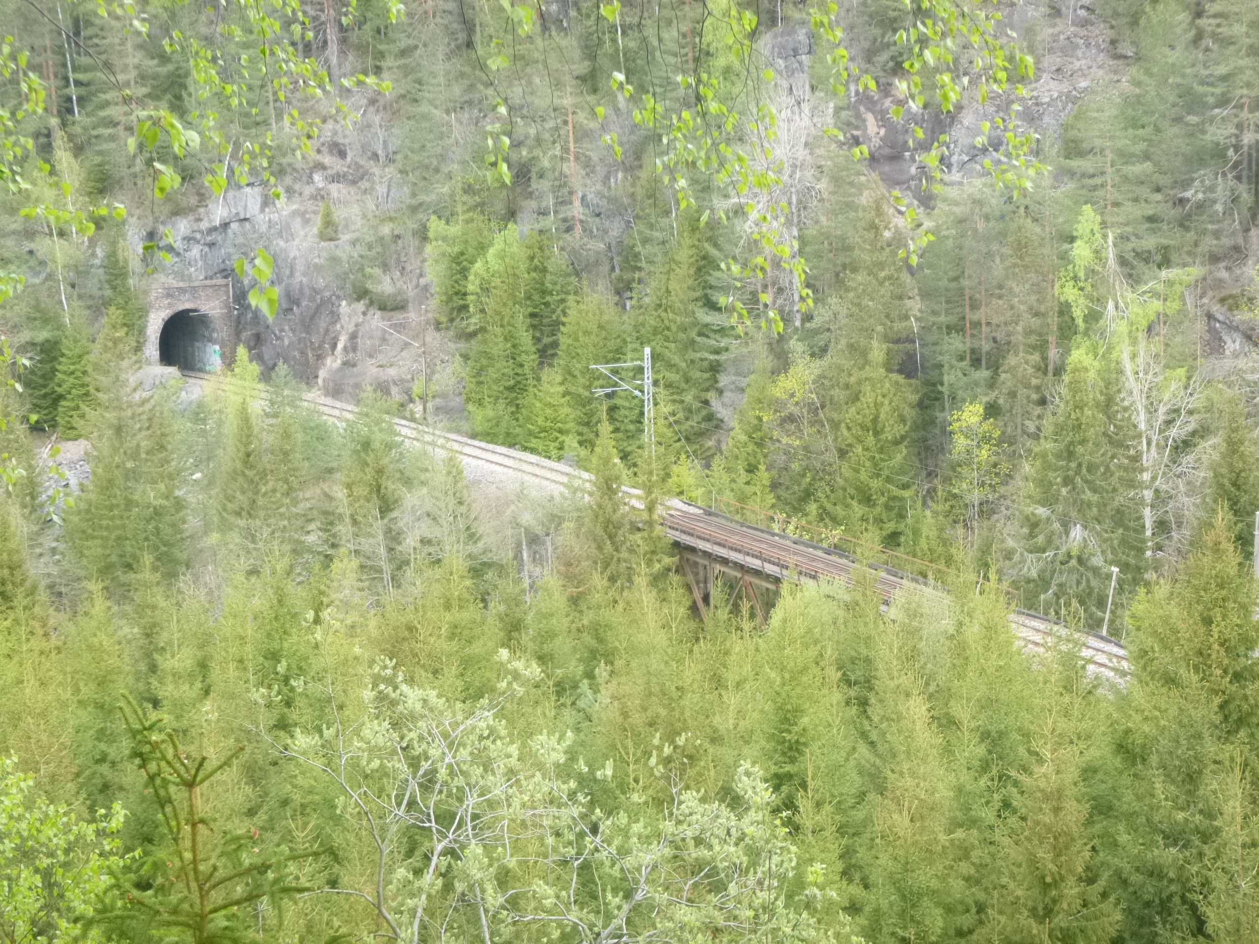 Svartufsbrua is a railway bridge on Bratsbergbanen (The Bratsberg line), at km 167,04. The bridge was blown up 14 March 1945, as an act of sabotage, as a part of "Operasjon Betongblanding"